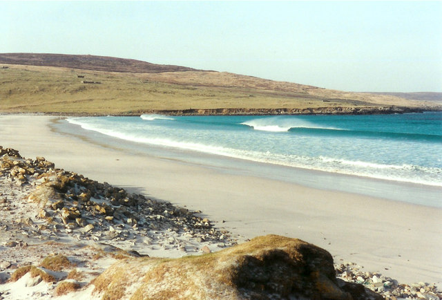 Beach at Sandwick, Unst. The long and curving sandy beach at Sandwick, Unst. The ruins of a viking longhouse are well preserved on the edge of the beach off picture.